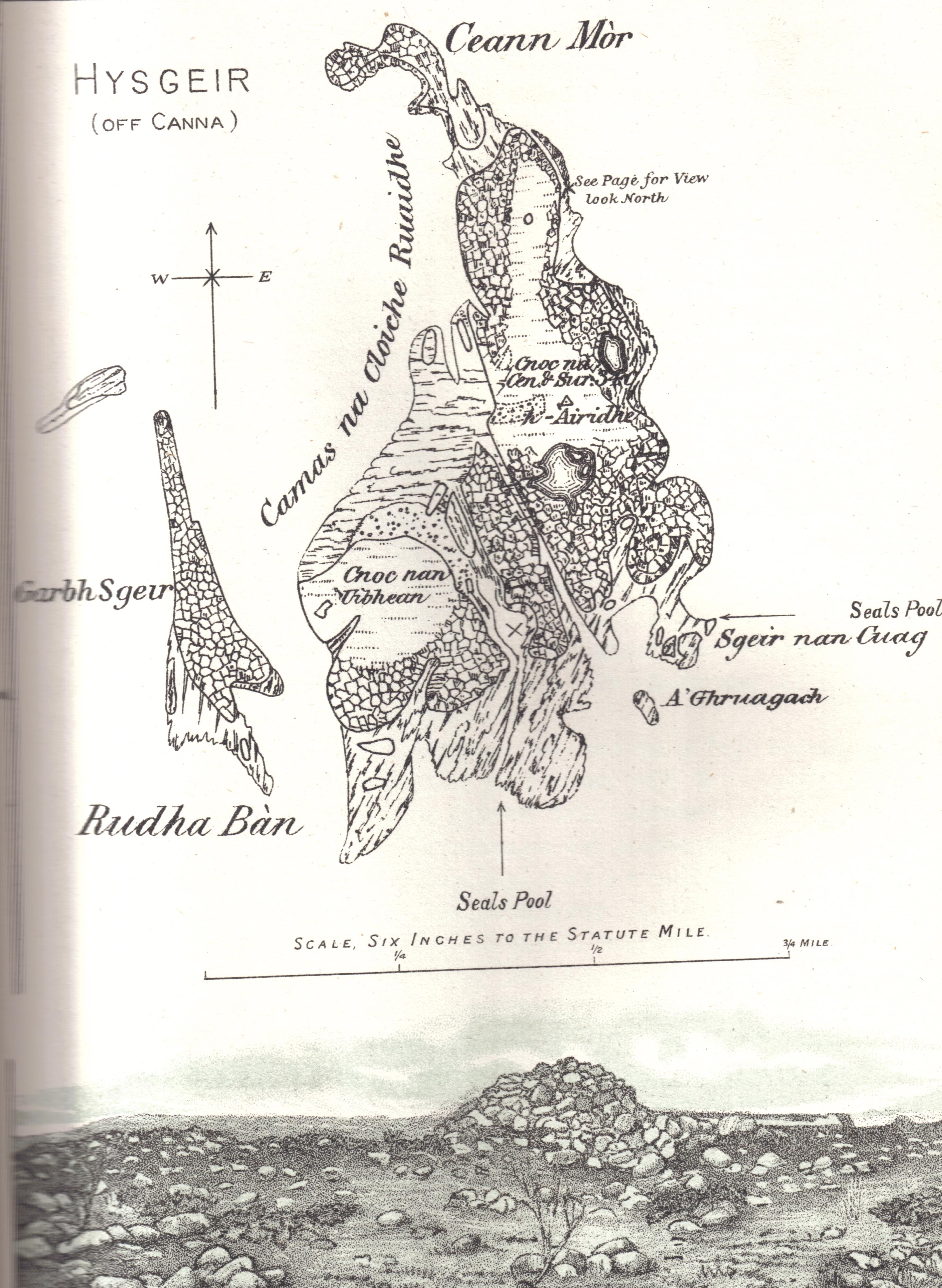 Map and drawing of the Hysgeir Isles